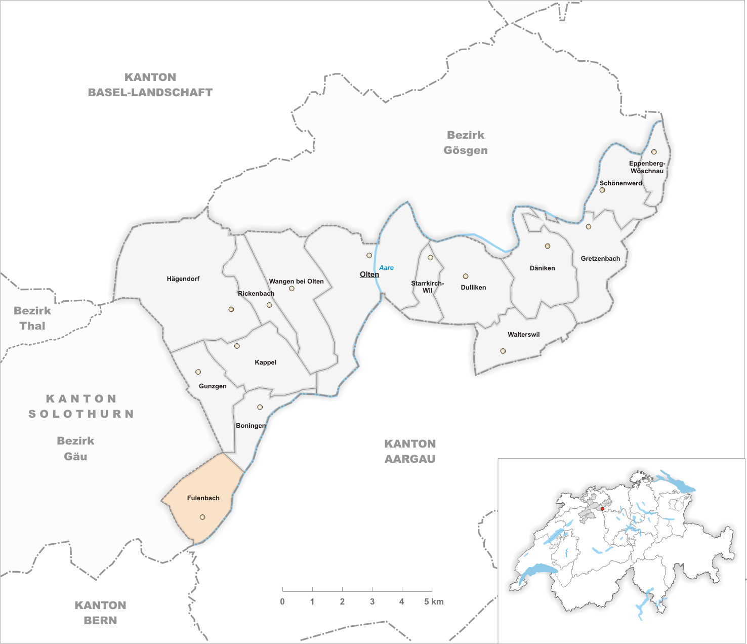 Municipality Fulenbach